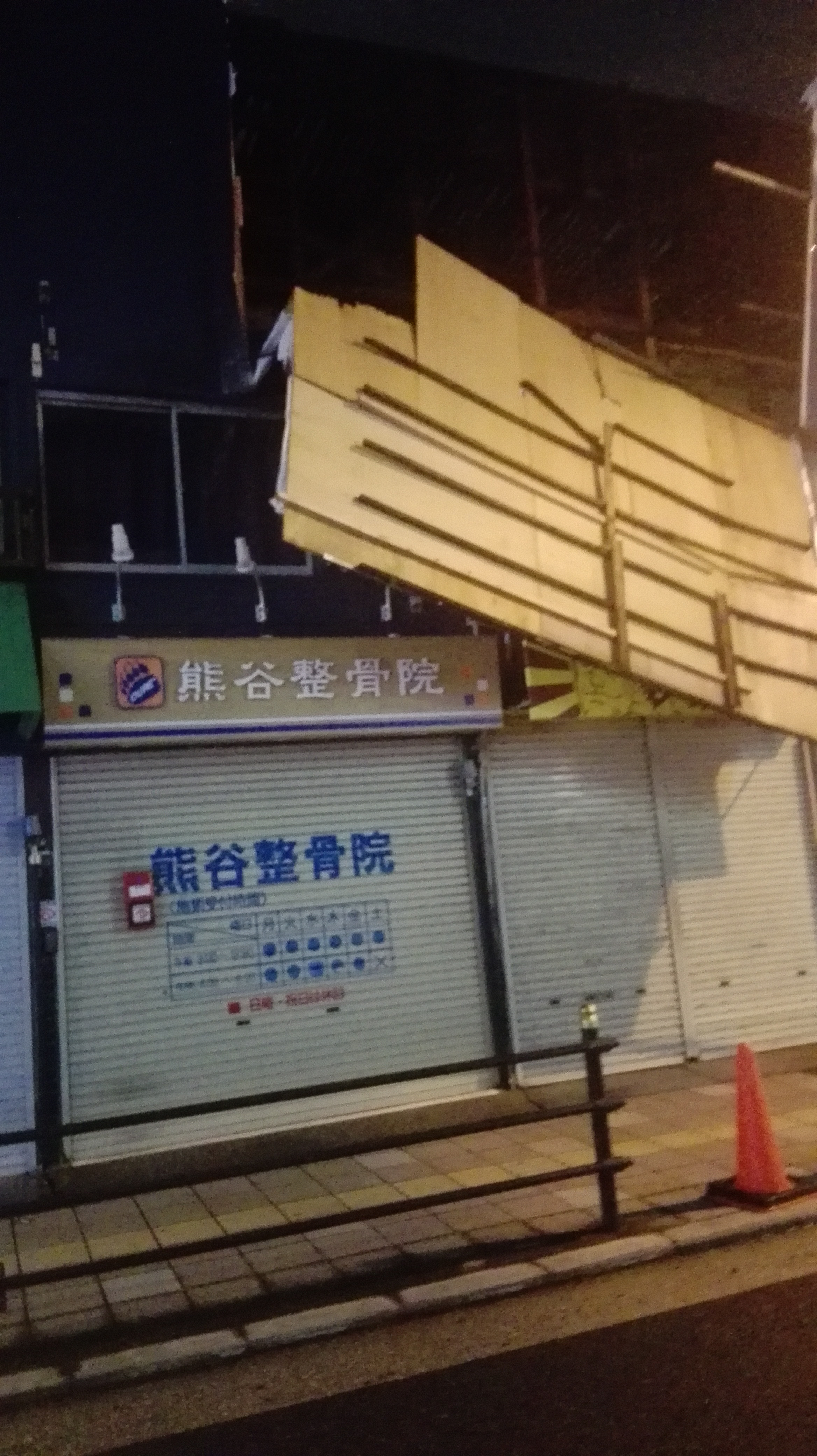 Kansai Typhoon Shock 2018-09 at Hanaten